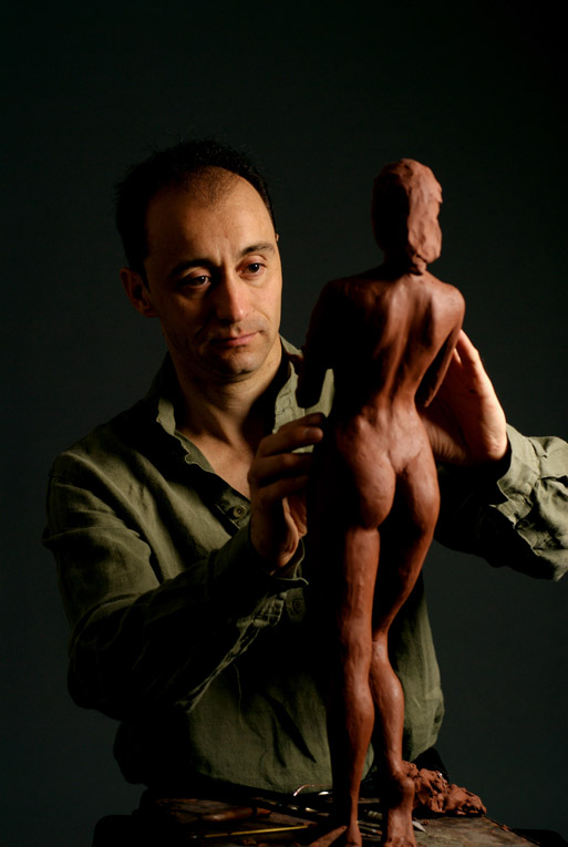 Leonardo Pereznieto at work